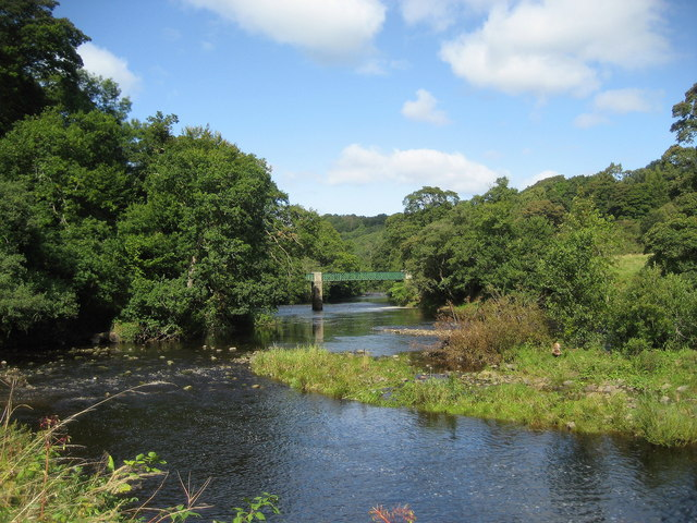 Footbridge across the River Tees Just above the confluence with the River Balder, there is a footbridge that links Low Shipley with the village of Cotherstone.